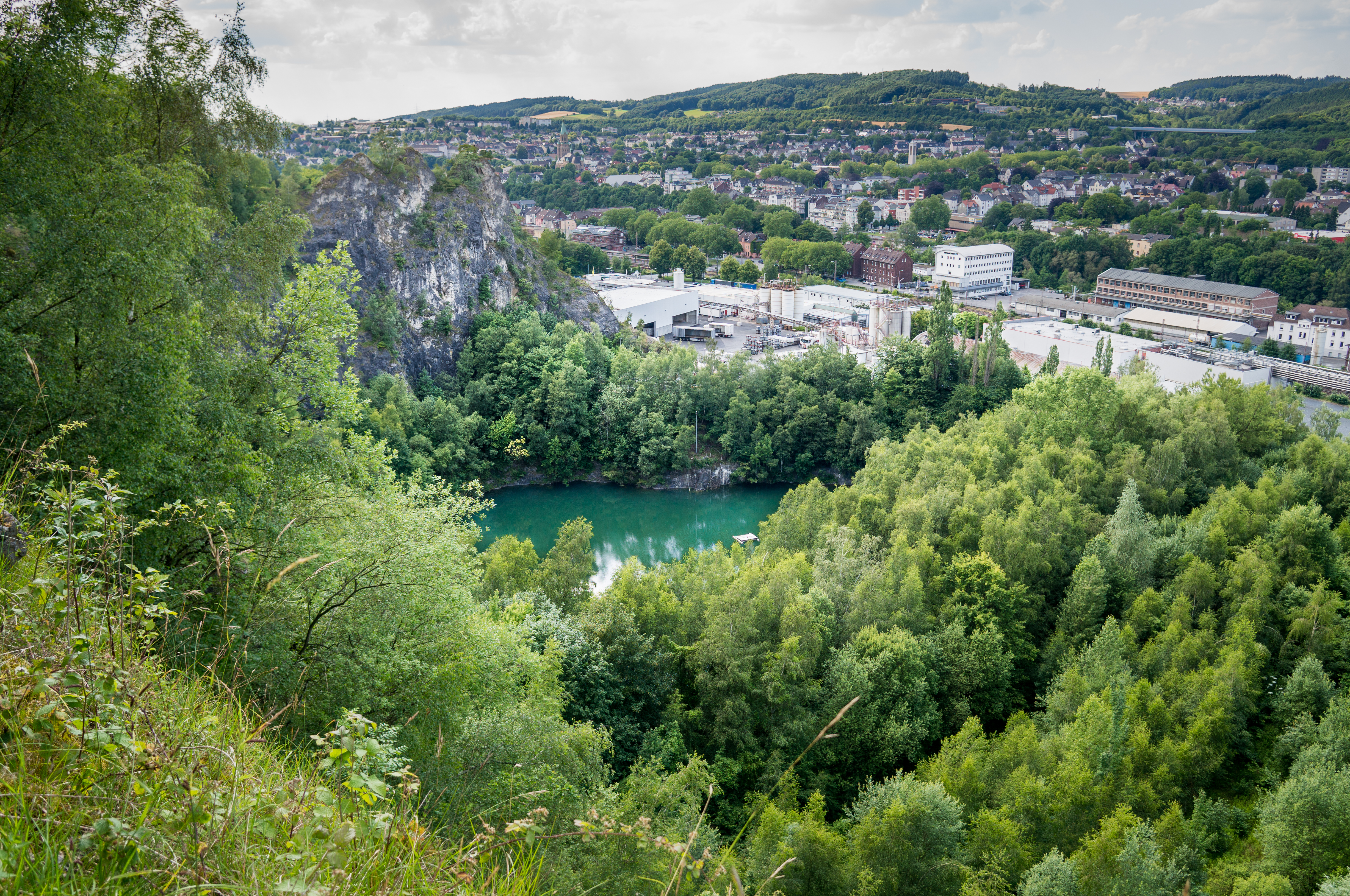 The cooling water pond "Silver Lake" can be seen before the towering cliff edge of the Kupferberg, which is included in the nature reserve Kupferberg (MK-046). It holds birch mixed forests on its craggy shore. In the North of the lake in the immediate vicinity of the company "Momentive", the industrial area Genna can be seen. In the background the district Letmathe is seen.